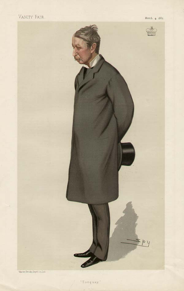 Caricature of Lord Haldon. Caption read "Torquay".